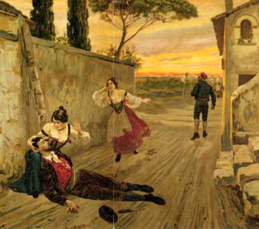 Detail from an illustration in an early edition of Giovanni Verga's short story Cavalleria rusticana, circa 1880 (artist unknown)